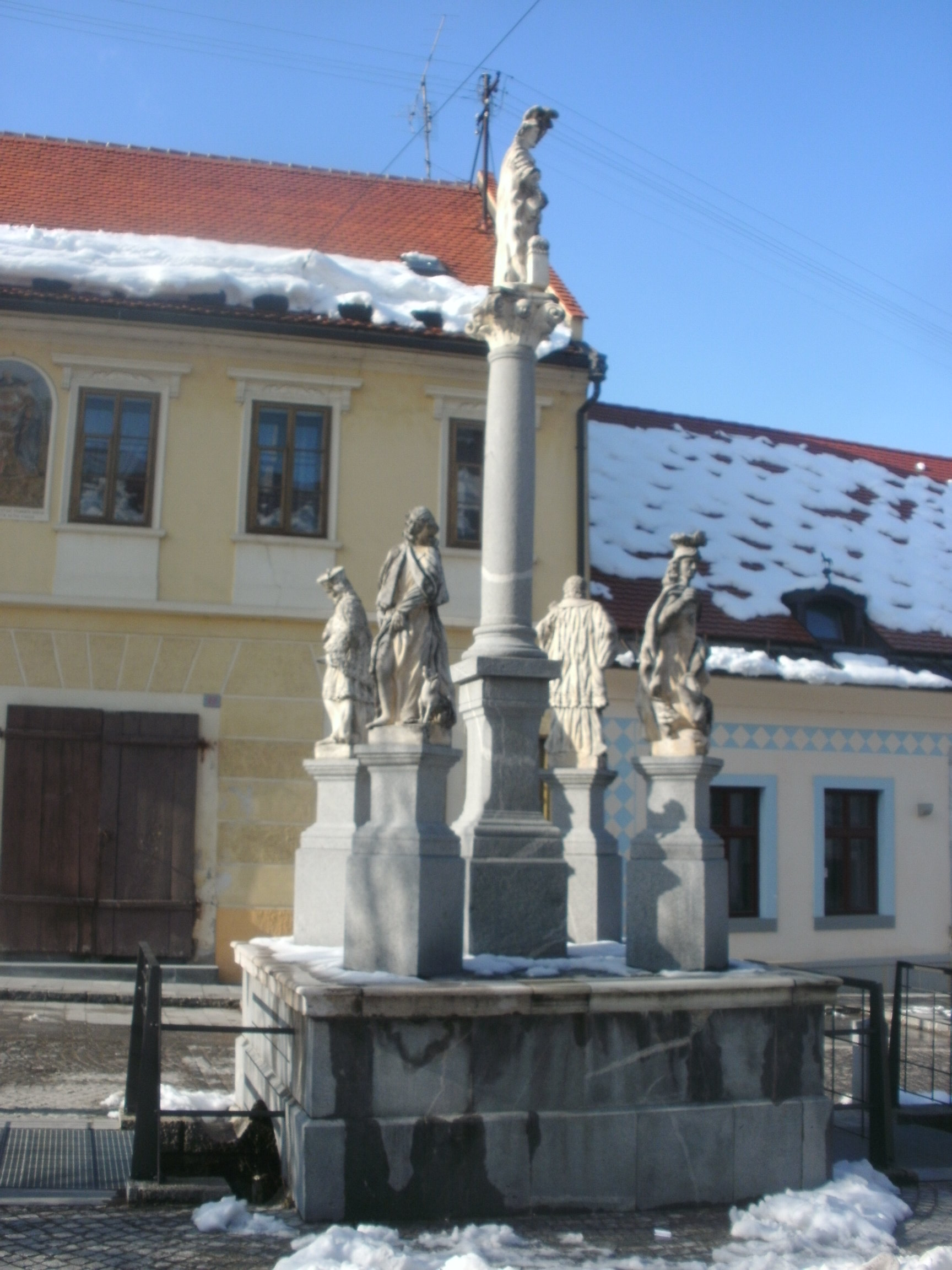 Slovenske Konjice, st. Florian monument by Franz Zamlik